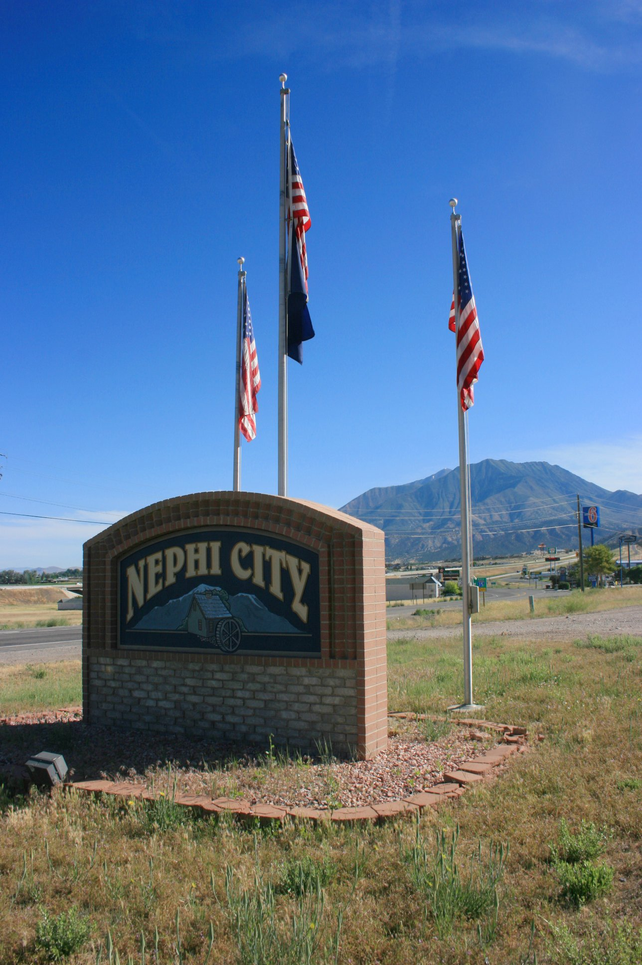 Photograph of the sign at the entrance to the city of Nephi, Juab County, Utah, United States, with in the distance, as viewed from Utah State Route 28 on the south side of the city, June 2007.